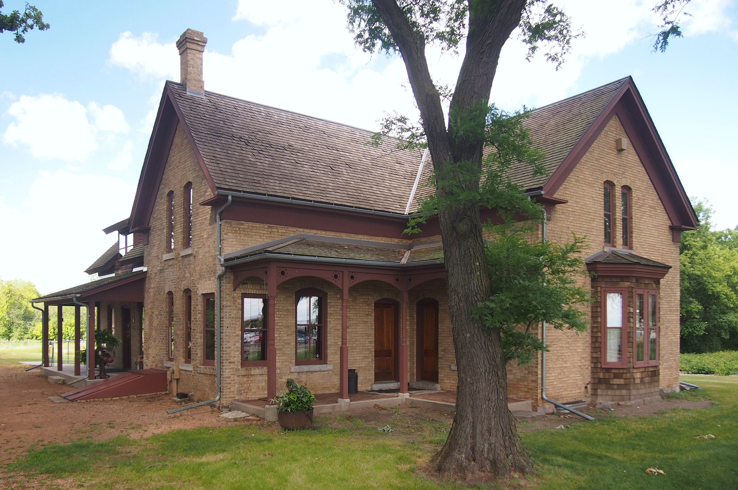 John R. Cummins Farmhouse, Silverness Park, 13600 Pioneer Trail, Eden Prairie, Minnesota, USA. Viewed from the southwest.